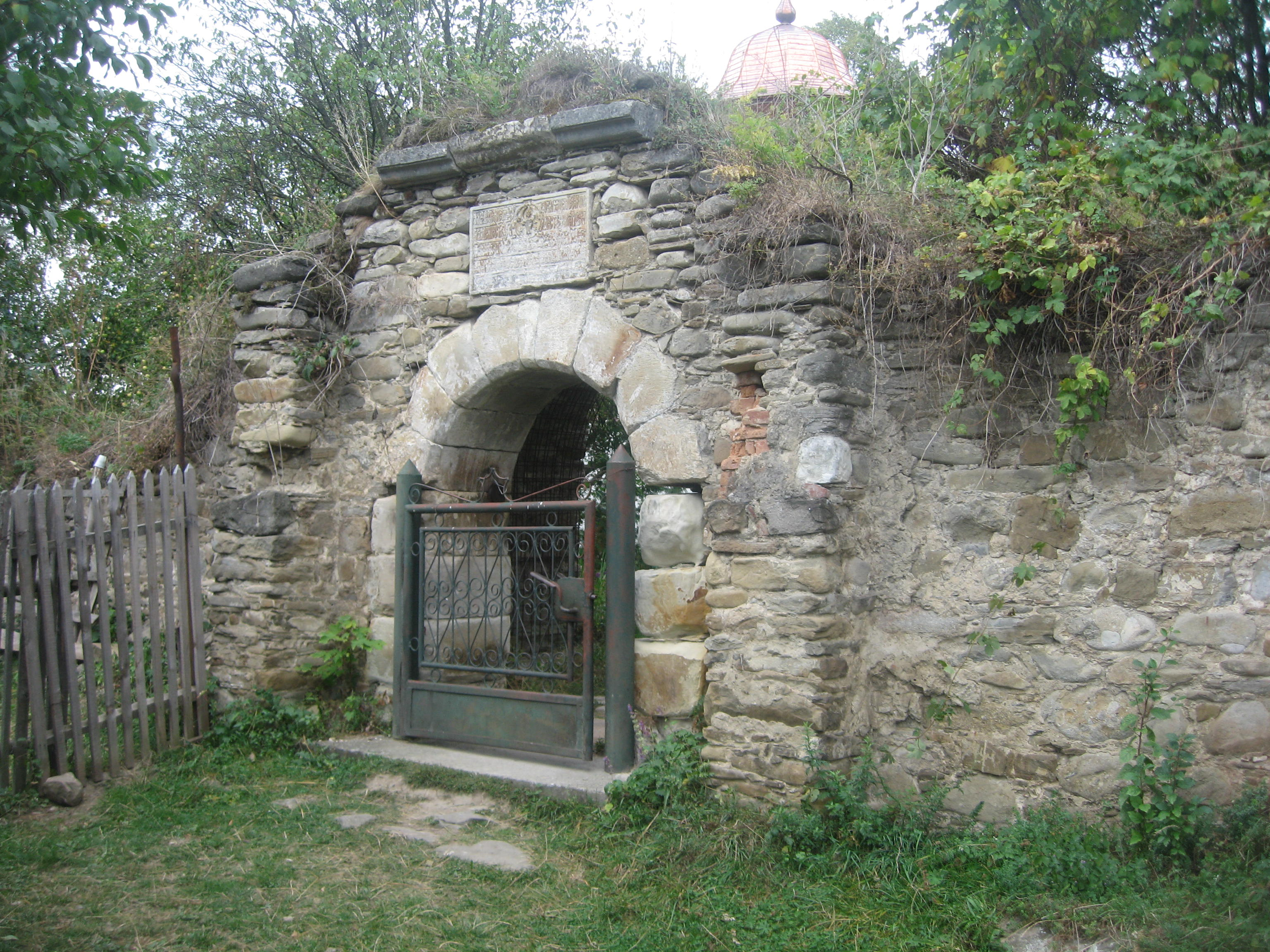 Palatul Cnejilor from Ceahlău, Neamţ County, Romania